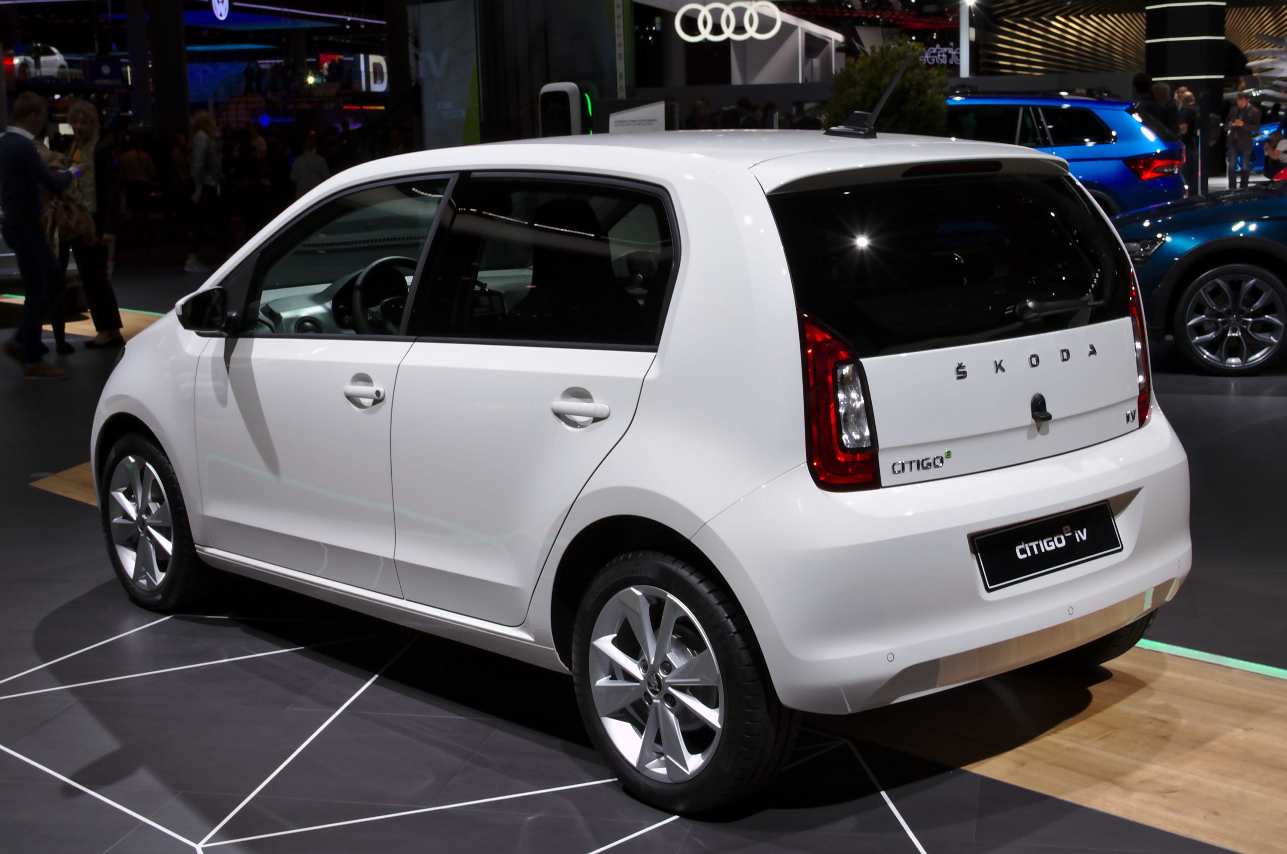 Škoda_Citigo-e_iV at IAA 2019